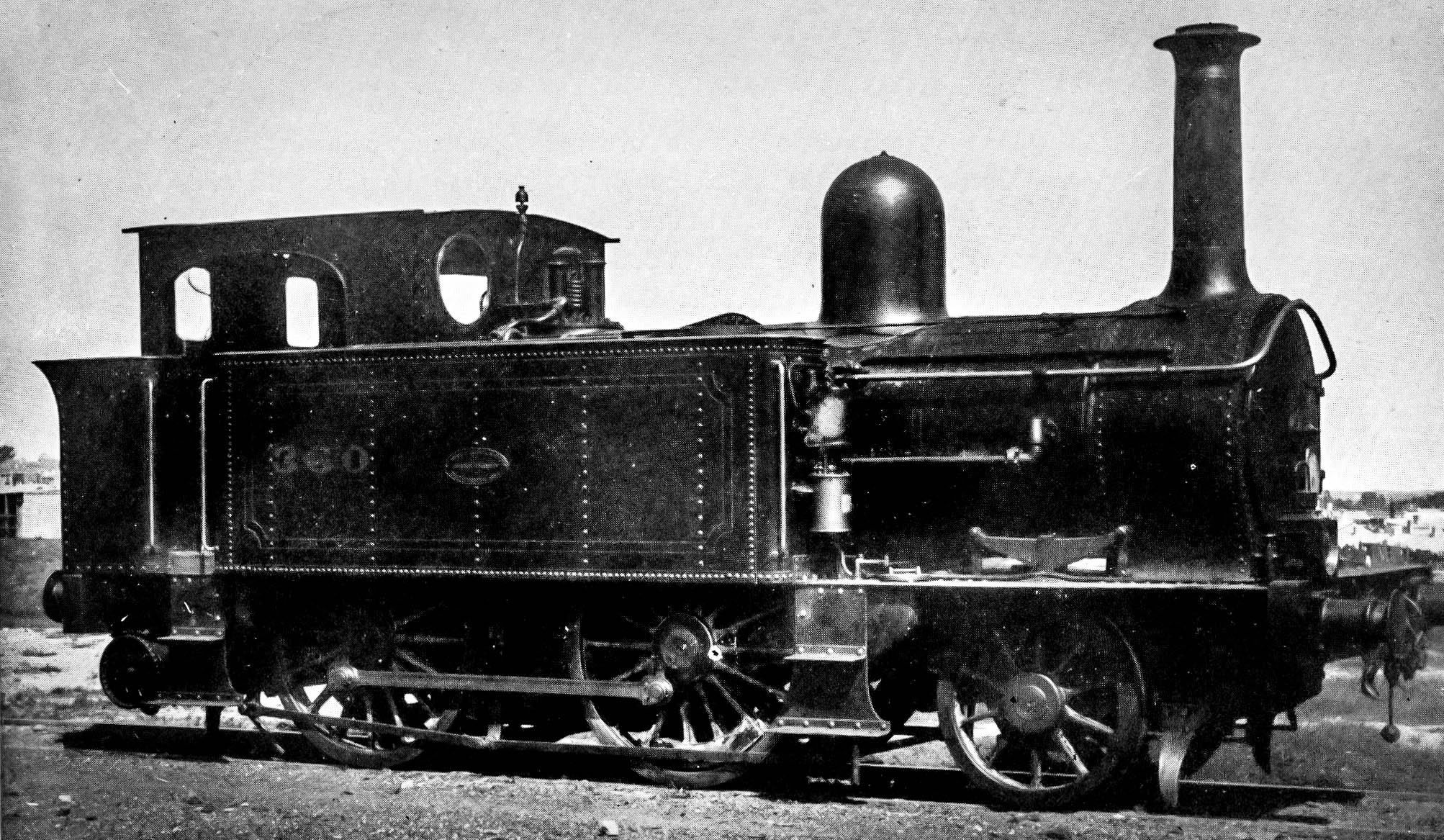 NSWGR Locomotive F.351 Class